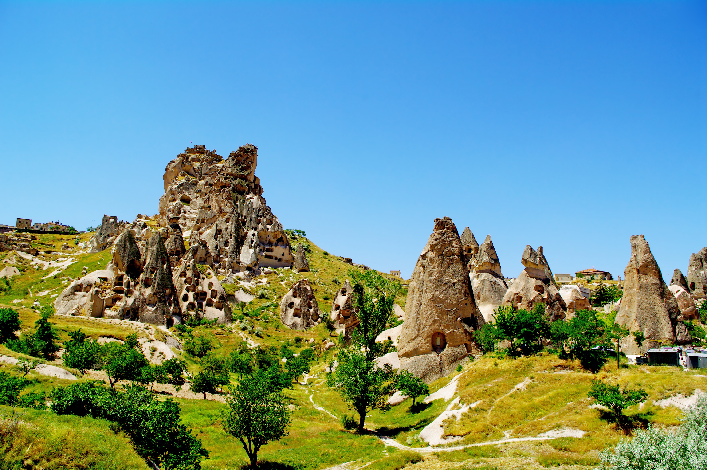 Fairy chimneys in Uçhisar, Cappadocia. Nevşehir - Turkey.